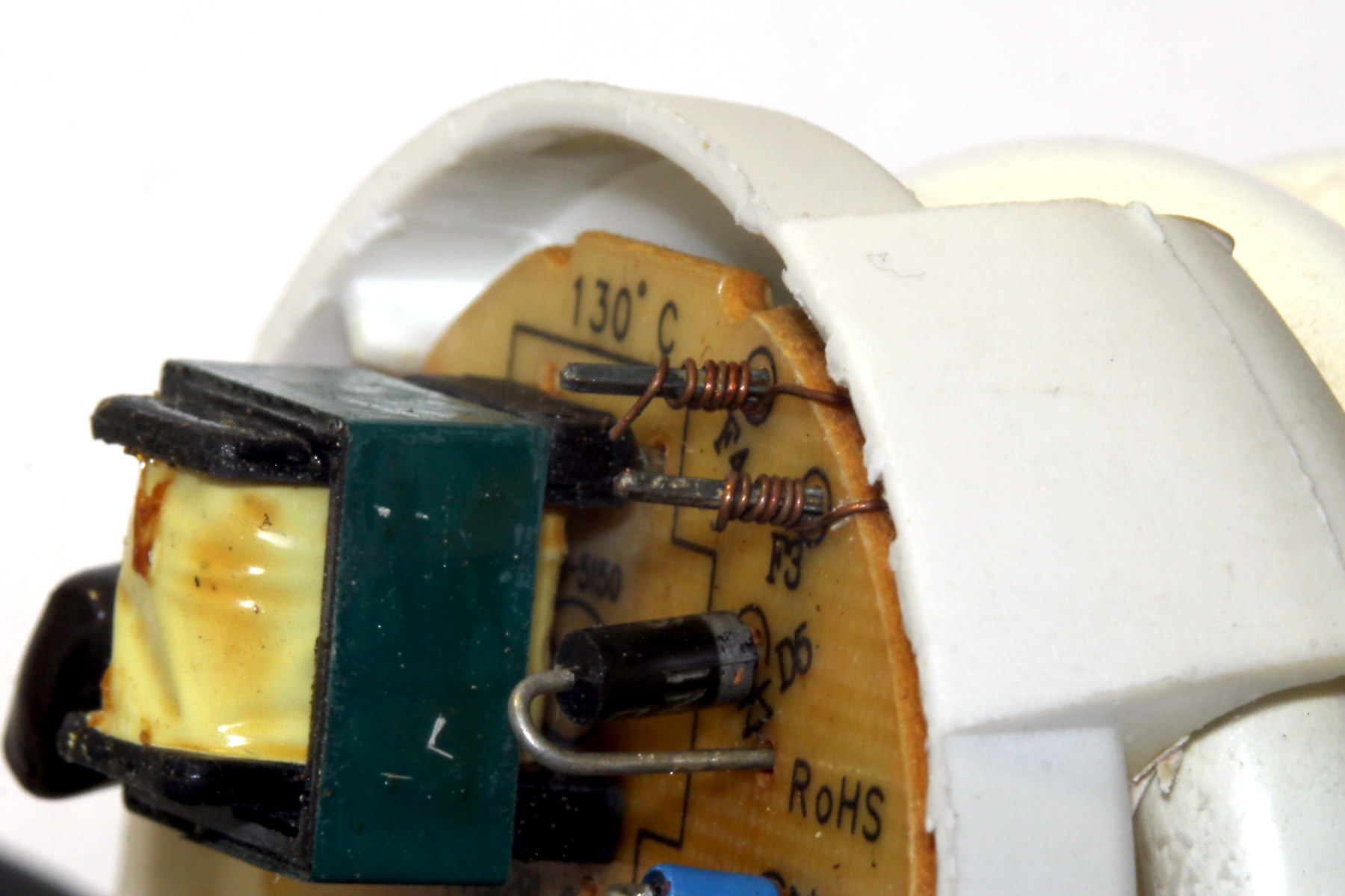 Wire wrap in CFL from OSRAM (early 2010s). 1N4007S diode visible below.